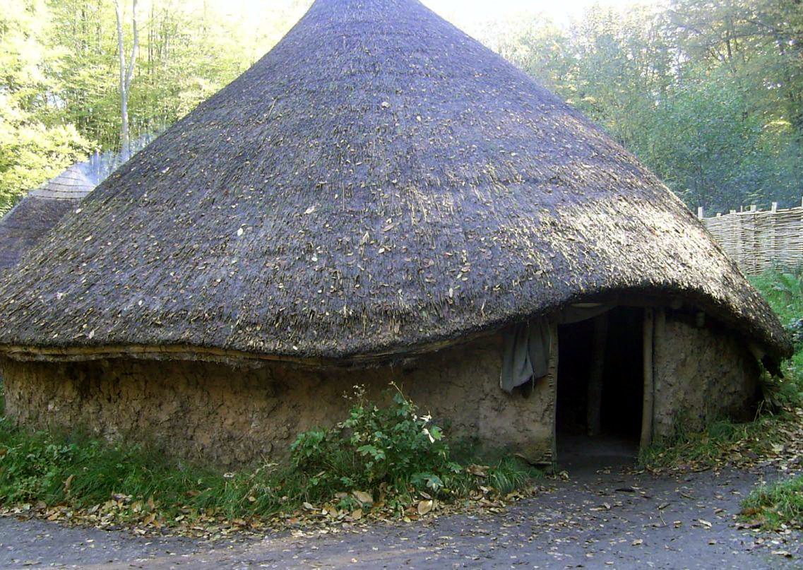 A recreation of a Celtic roundhouse, National History Museum of Wales, 2007.